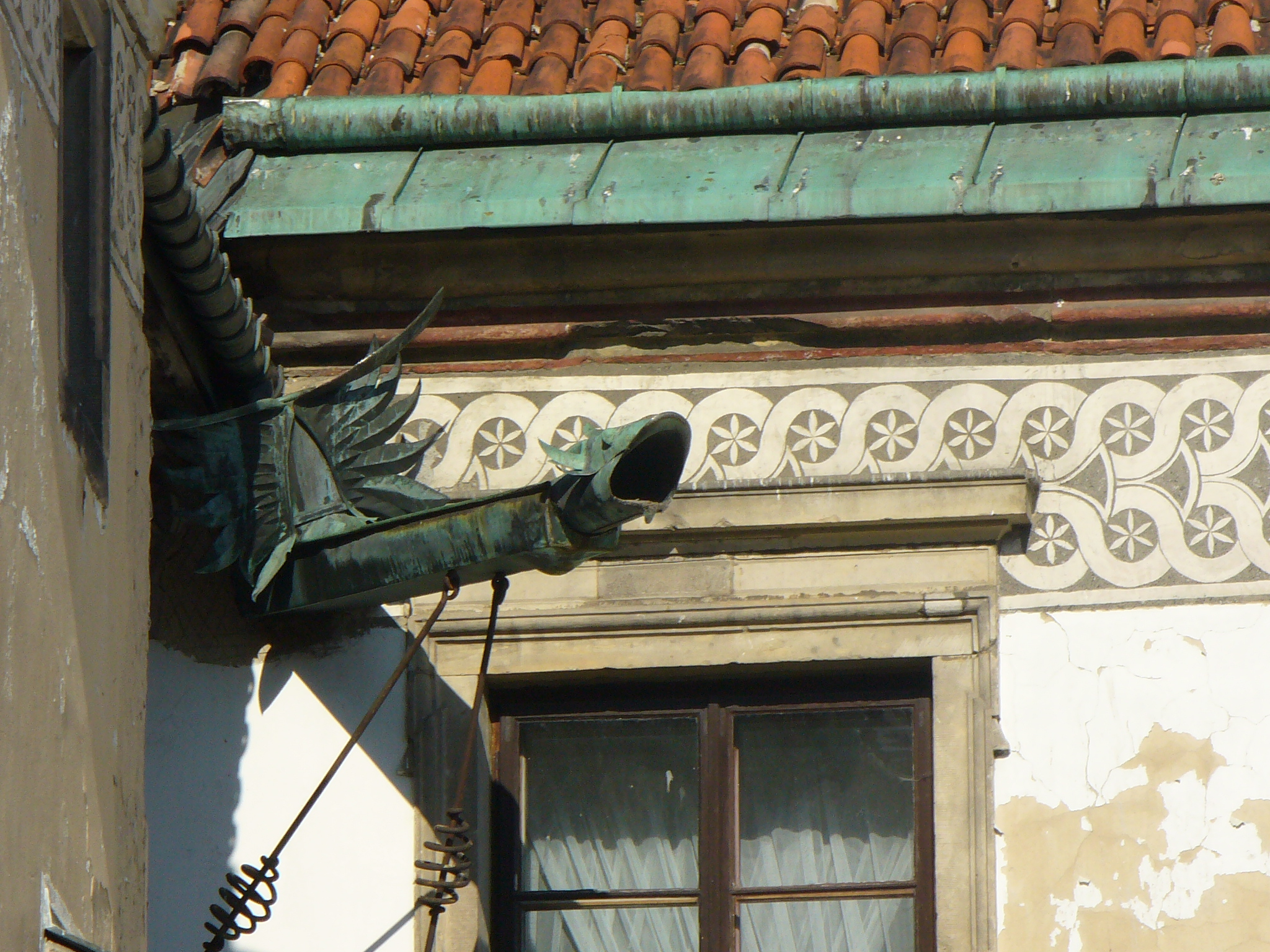 Gargoyle in the castle Szydłowiec near Radom, Poland.